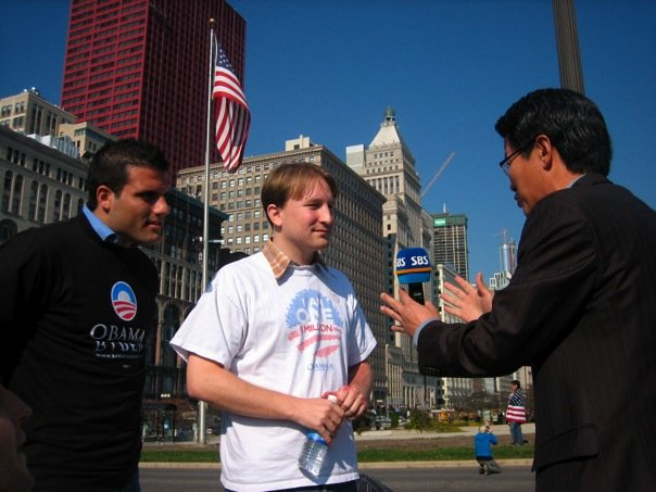 Krieglstein Interviewed by SBS of Korea.